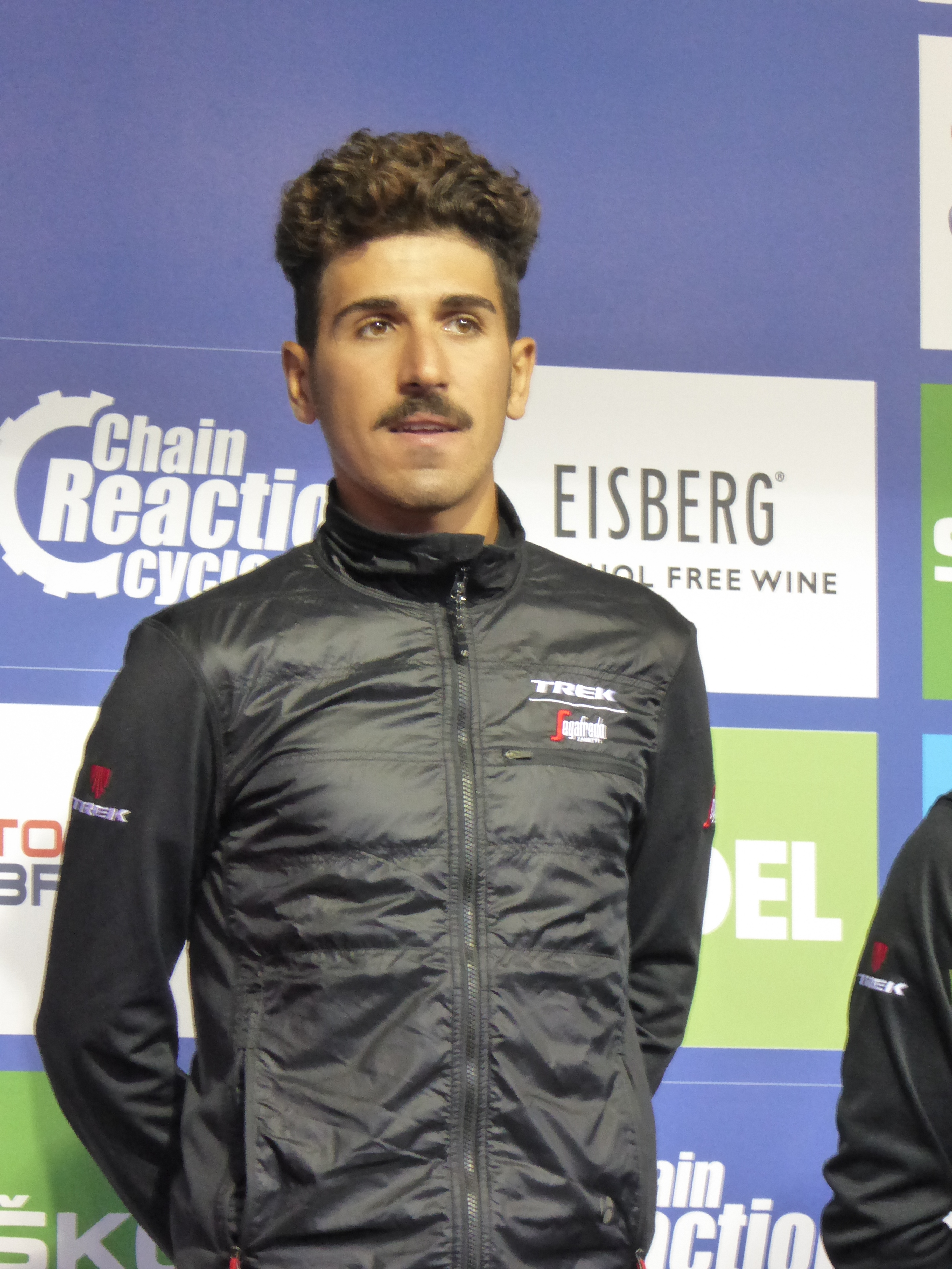 Eugenio Alafaci (Trek-Segafredo), pictured at the 2016 Tour of Britain team presentation in Glasgow on 3 September 2016.